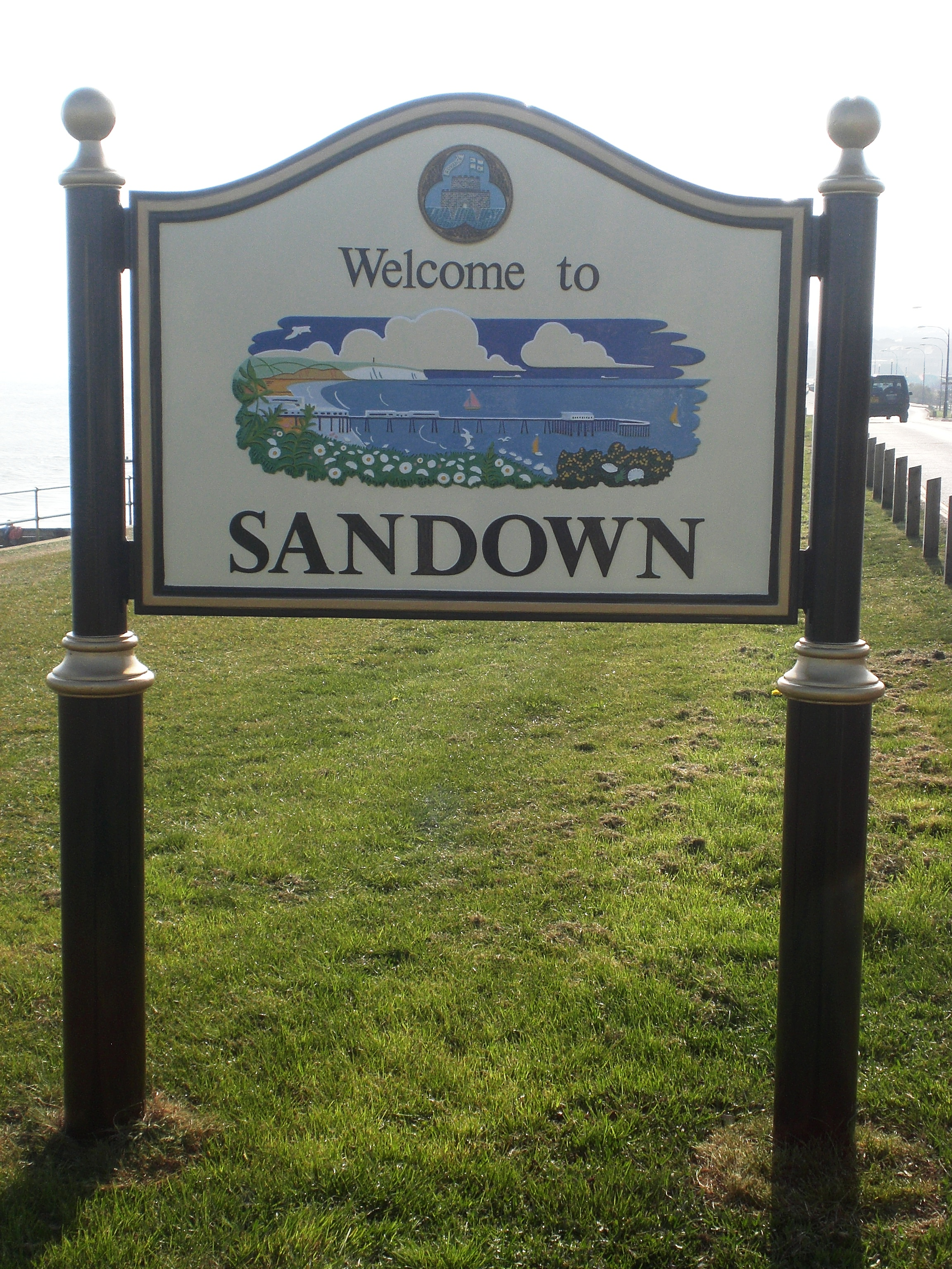 The sign on entering Sandown on the Isle of Wight.